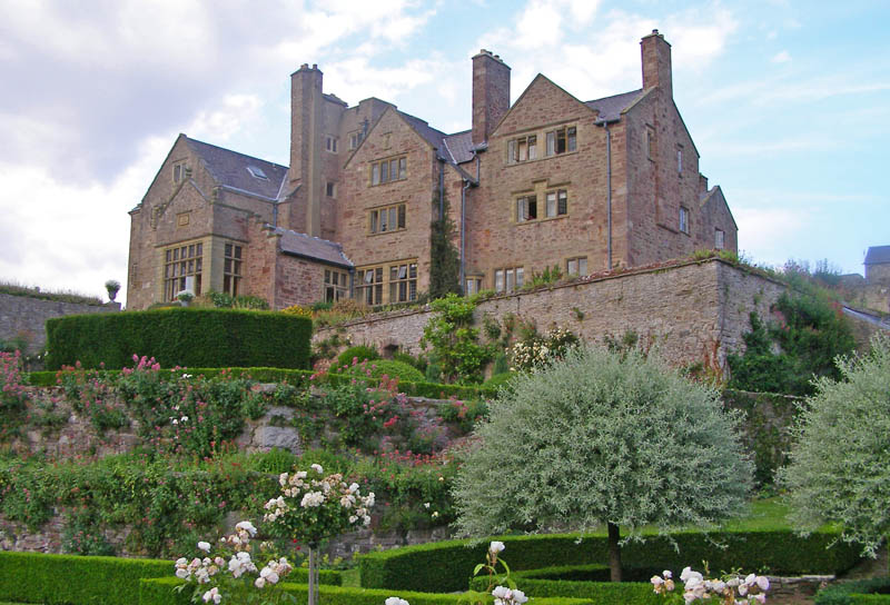 Bodysgallen Hall from gardens below